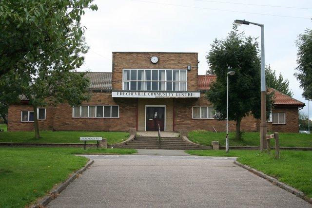 Frecheville Community Centre A straight concrete drive creates quite an imposing approach to the Community Centre which nestles in the middle of the estate. The older maps show a pond behind the community centre and it was with a certain degree of skepticism that I checked google maps satellite imagery to find that the pond was still there. I must go for a walk behind the building some time and check it out.